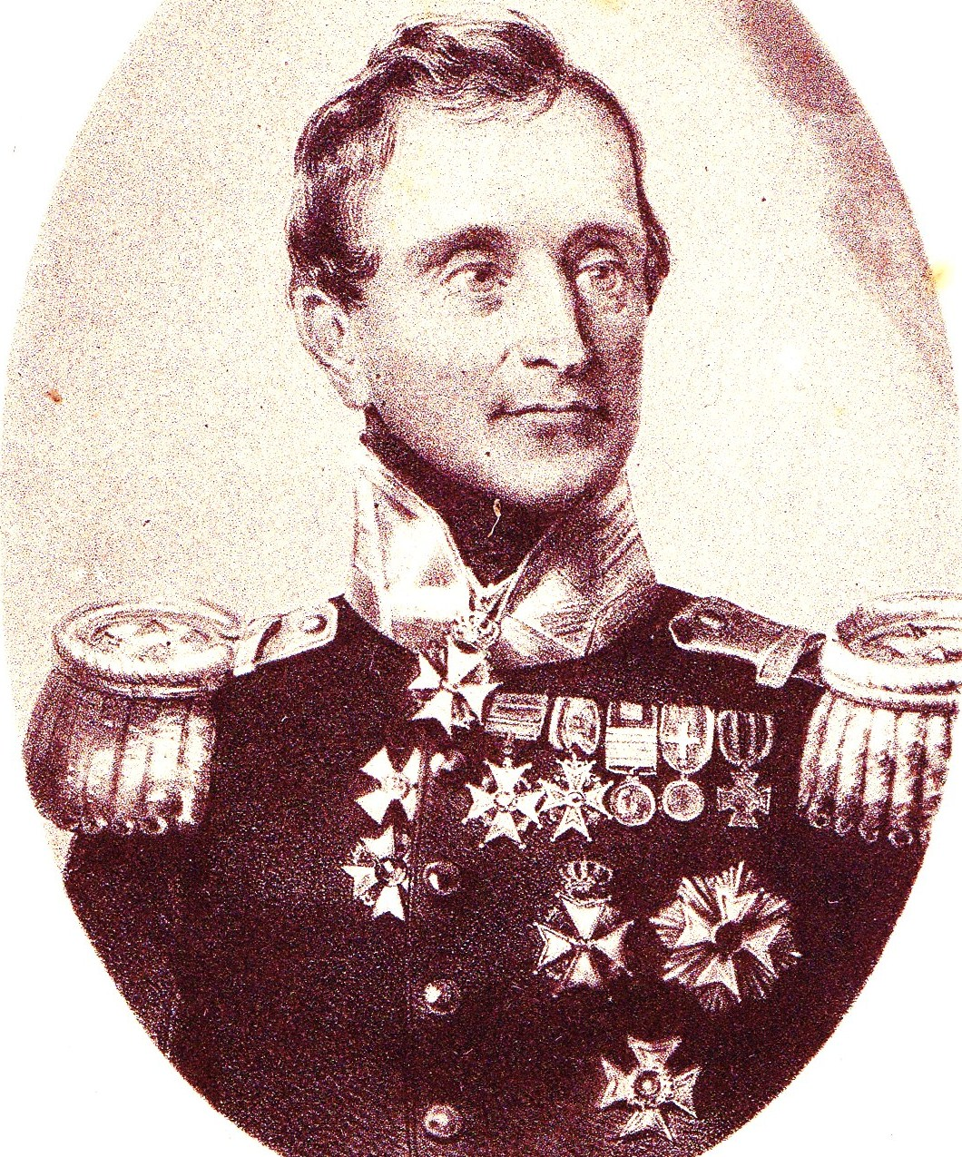 Generaal de Constant Rebeque